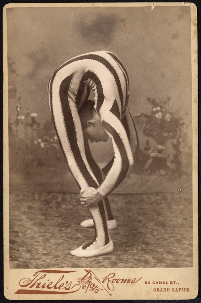 Contortionist, posed in studio, ca. 1880 Accession Number: 2003:1171:0010 Maker: Thiele's Photographic Rooms Title: Contortionist, posed in studio Date: ca. 1880 Medium: albumen print Dimensions: Image: 14.4 x 10 cm (5 11/16 x 3 15/16 in.) Mount: 16.3 x 10.7 cm (6 7/16 x 4 3/16 in.) George Eastman House Collection General information about the George Eastman House Photography Collection is available at For information on obtaining reproductions go to